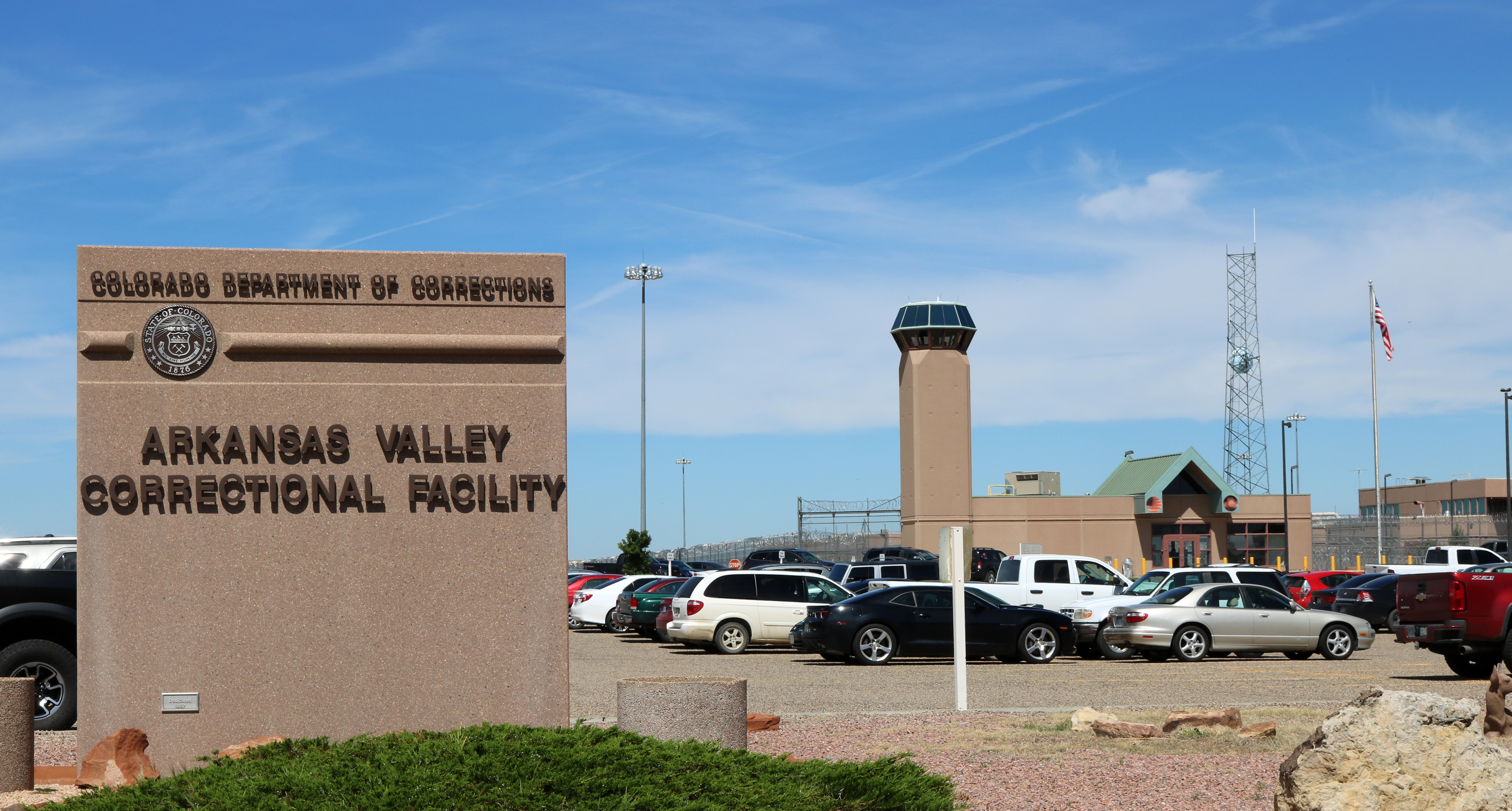 The Arkansas Valley Correctional Facility, located at 12750 Highway 96 near Ordway, Colorado.